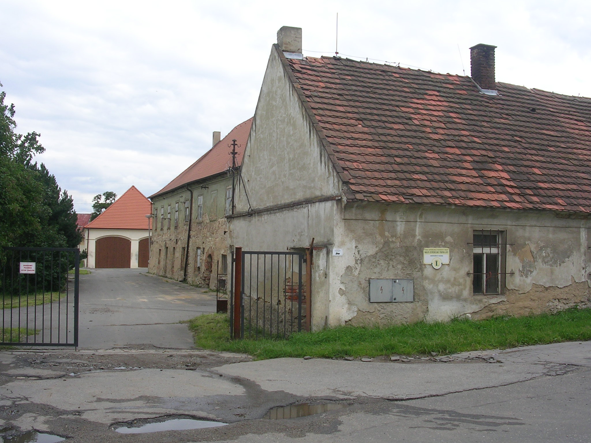 Suchdol, Prague, the Czech Republic. - Google Maps - Google Earth